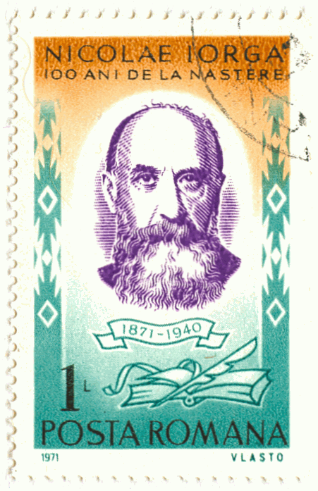 1971 Romanian Post; Series: Famous persons, Nicolae Iorga - 100 years since birth